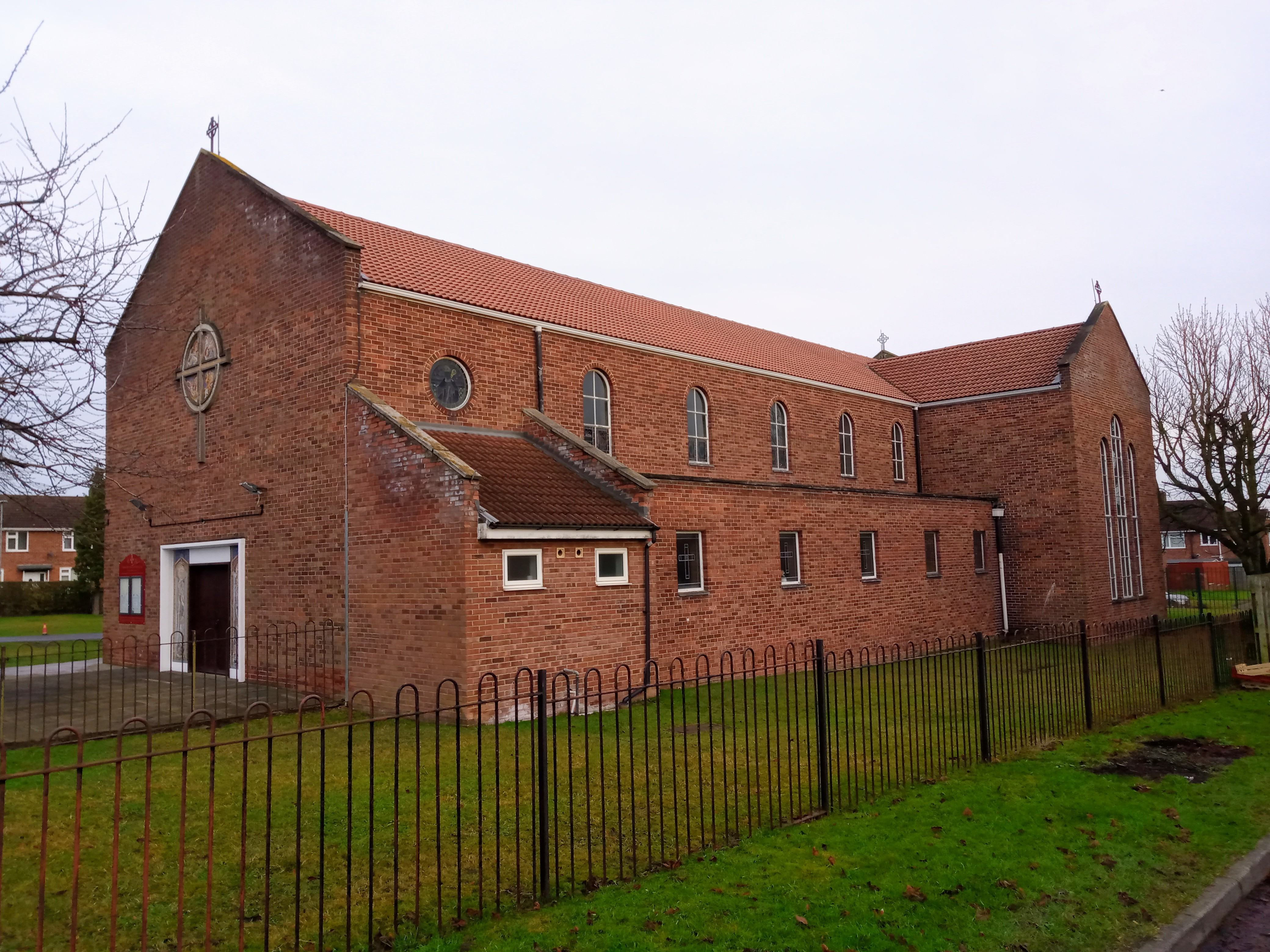 Stockton-on-Tees